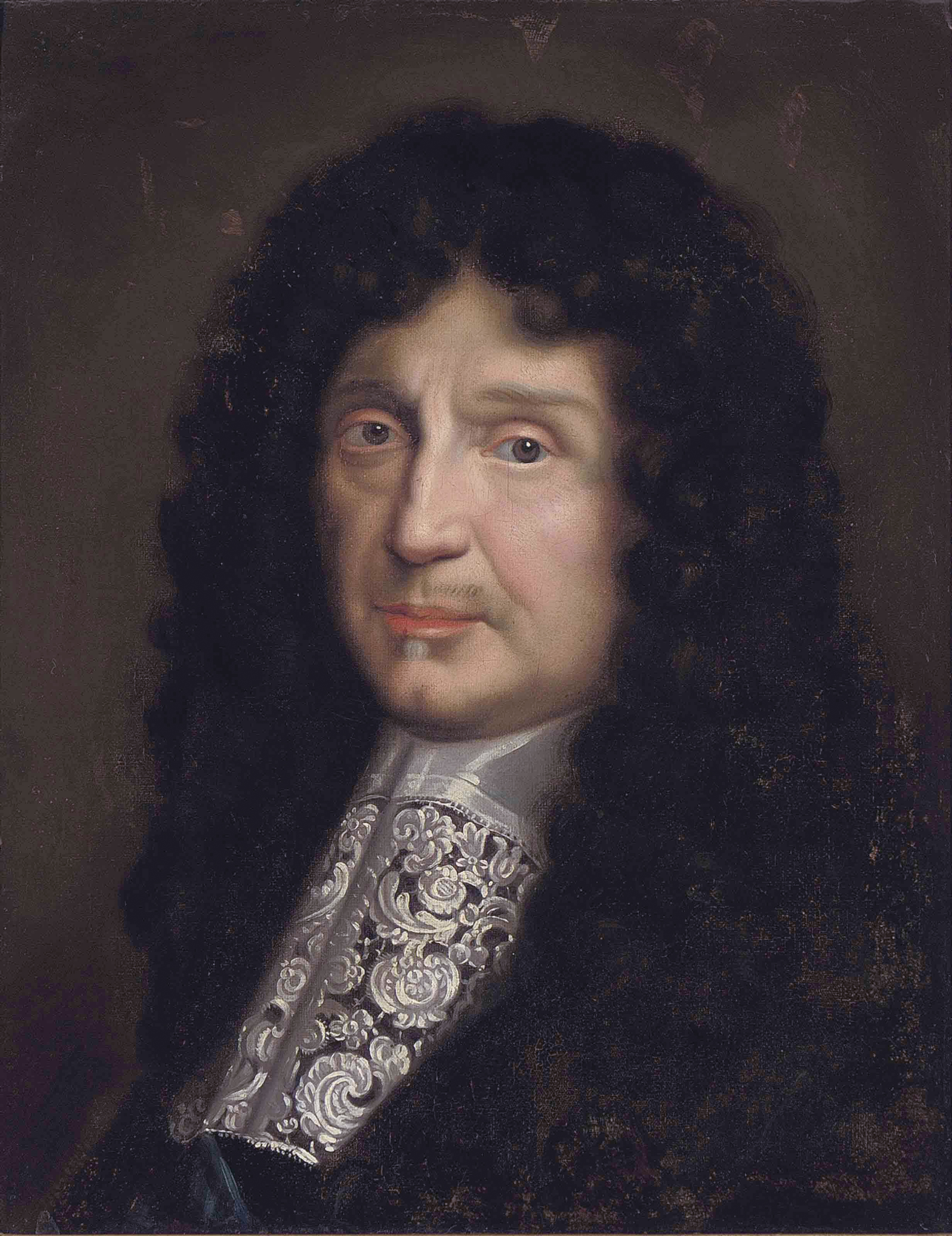 Portrait of Jean-Baptiste Antoine Colbert, Marquis de Seignelay, bust-length, in a black coat, with lace cravat